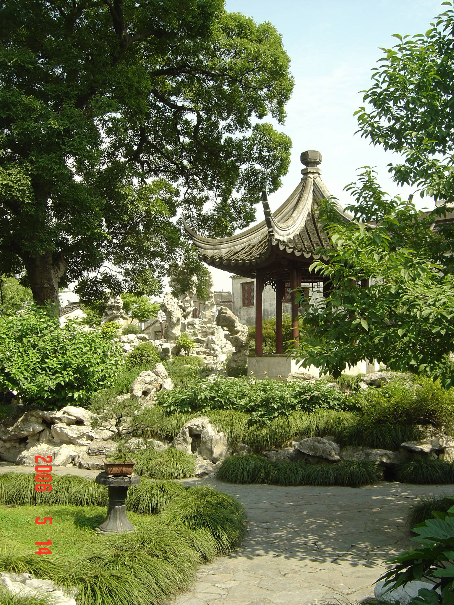 Wufengyuan